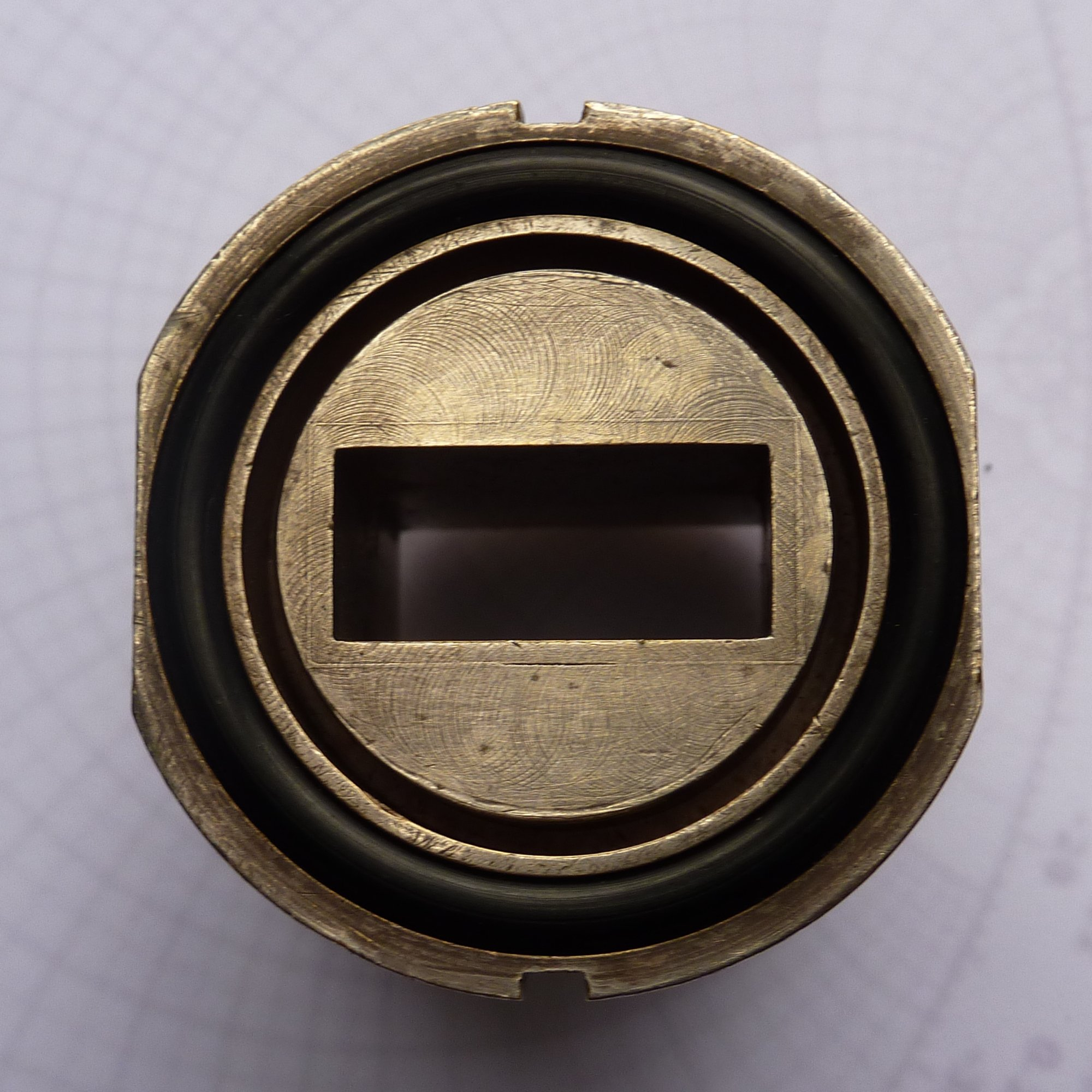 Waveguide choke flange (probably RCSC 5985-99-083-0003) with gasket in place, (poorly) through-mounted on WG16. The recessed face of the flange and the end of the waveguide tube are somewhat crudely machined level. An imperfection in the brazing of the flange to the tubing has resulted in a crack exactly where the current on the inside of the waveguide broad wall should flow onto the recessed face of the flange.